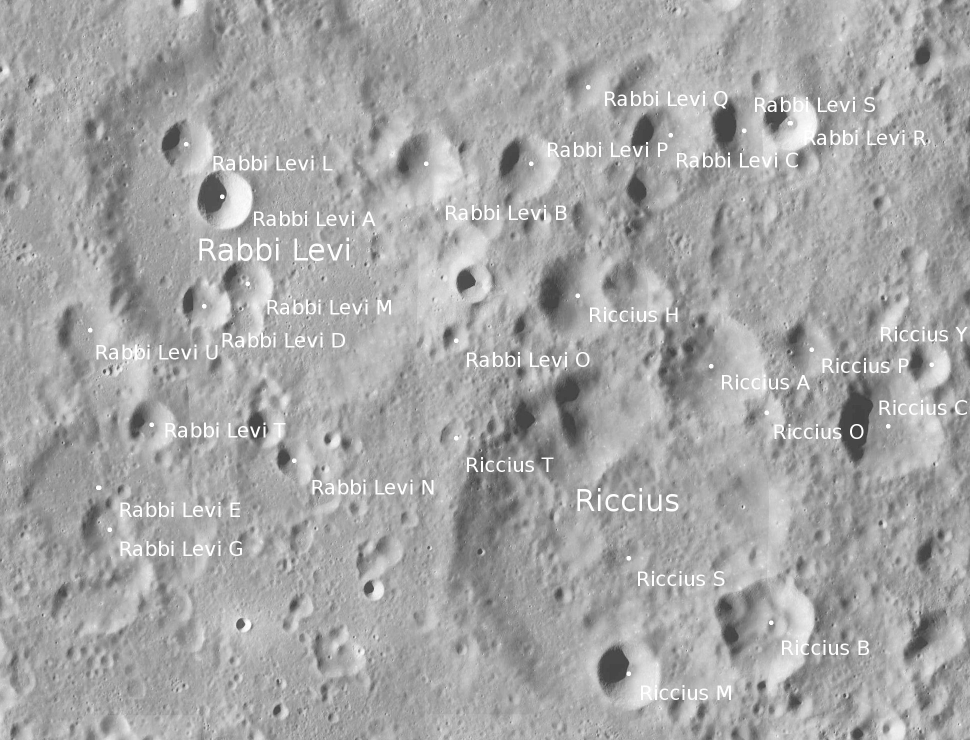 Craters Rabi Levi and Riccius (detail of LRO - WAC global moon mosaic; Mercator projection)